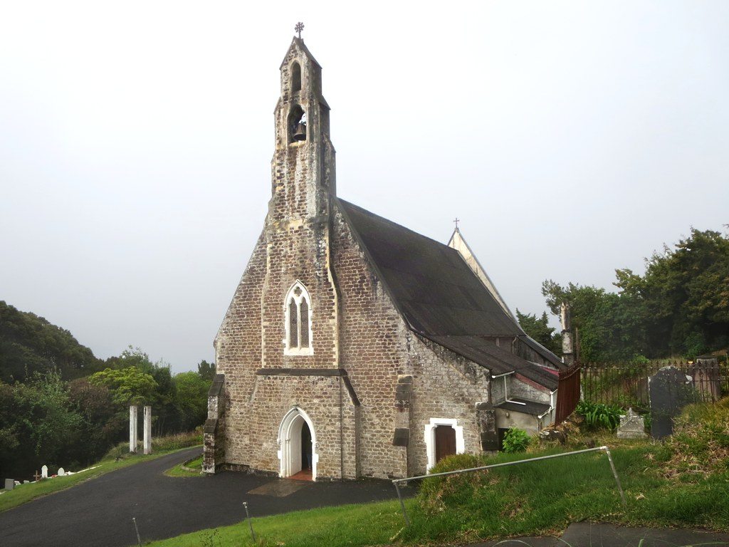 St Paul's Anglican Cathedral (1851) stands at White Gate near the governor's residence on St Helena Island. Local military, civil, and clerical dignitaries are buried in the surrounding cemetery.